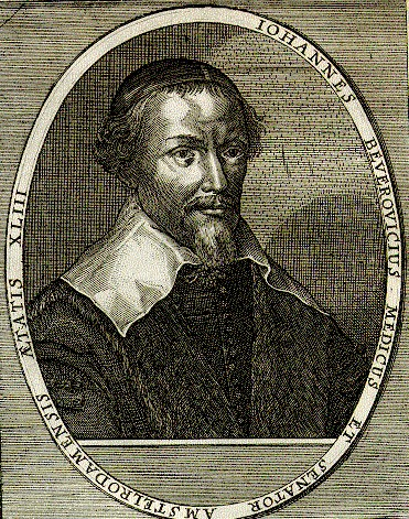 Jan van Beverwijck (1594-1647), dutch physician and philosopher